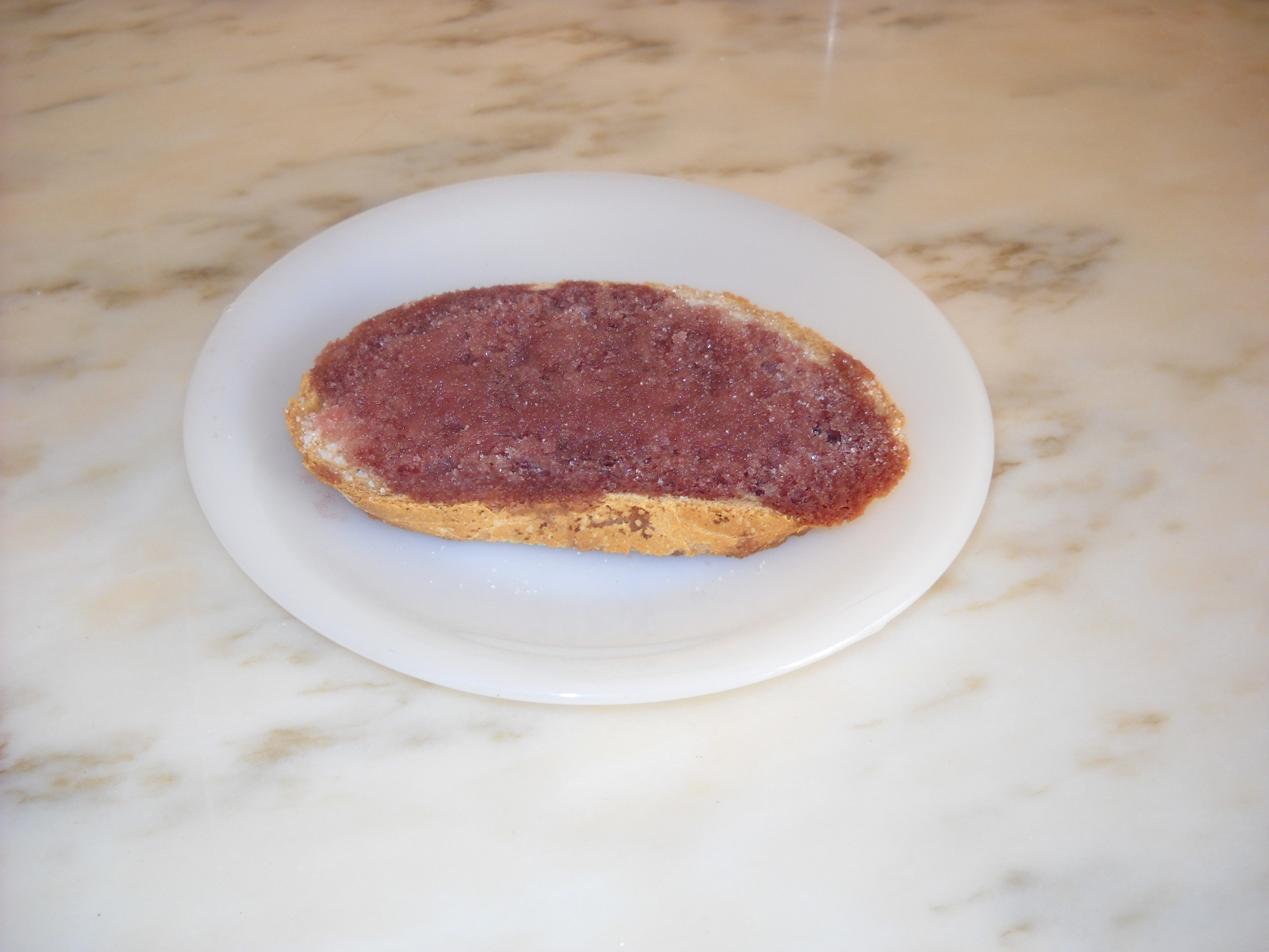 This is a catalan style of sop from the medieval times: bred soaked with wine and sugar..delicious (catalans we had sugar from the morish at least in the XIV century English terms of the sugar industry:masse cuite, bagasses, molasses..have a catalan origin)